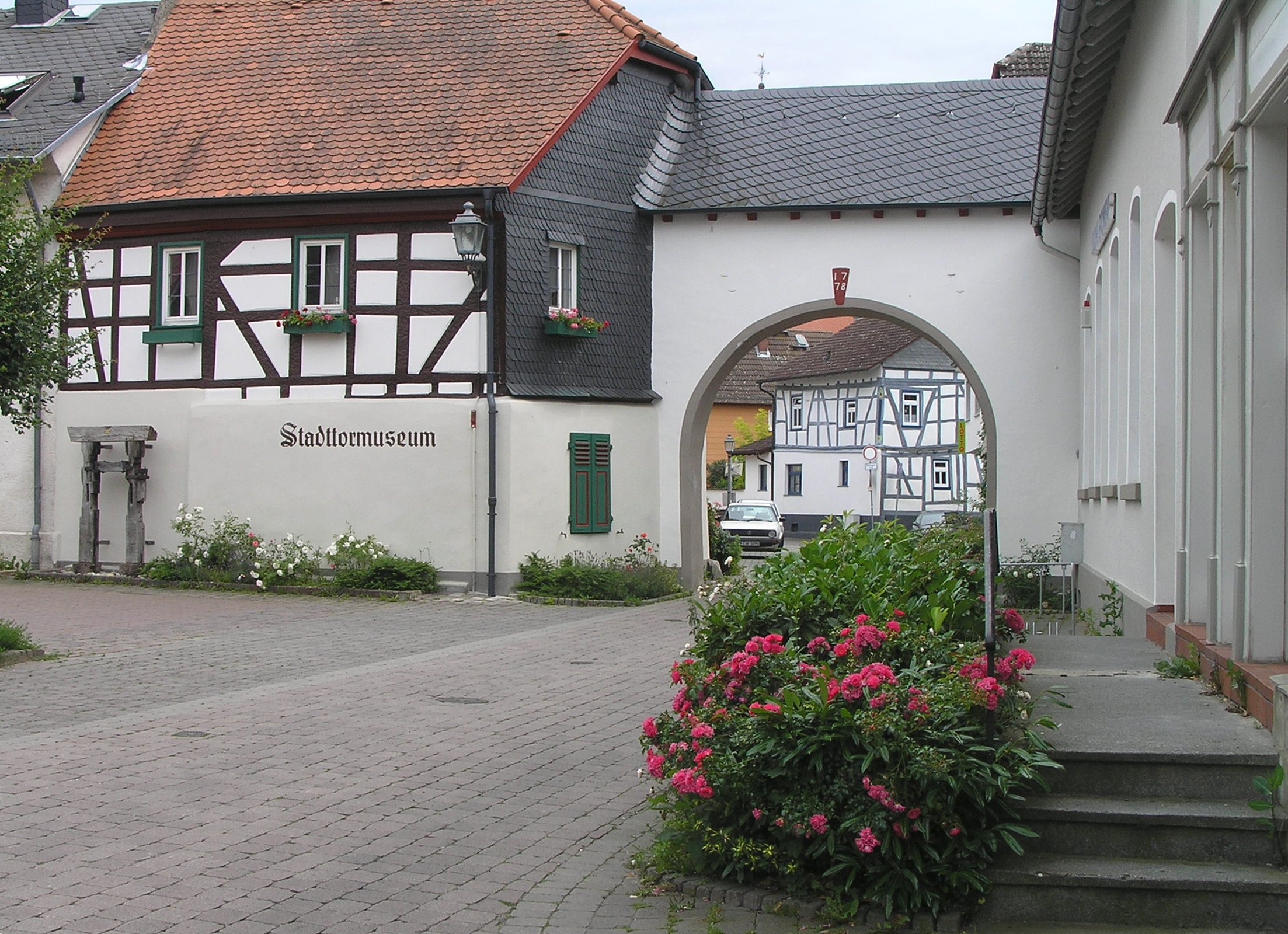 Wehrheim city gate and gatekeepers house, which now houses the museum